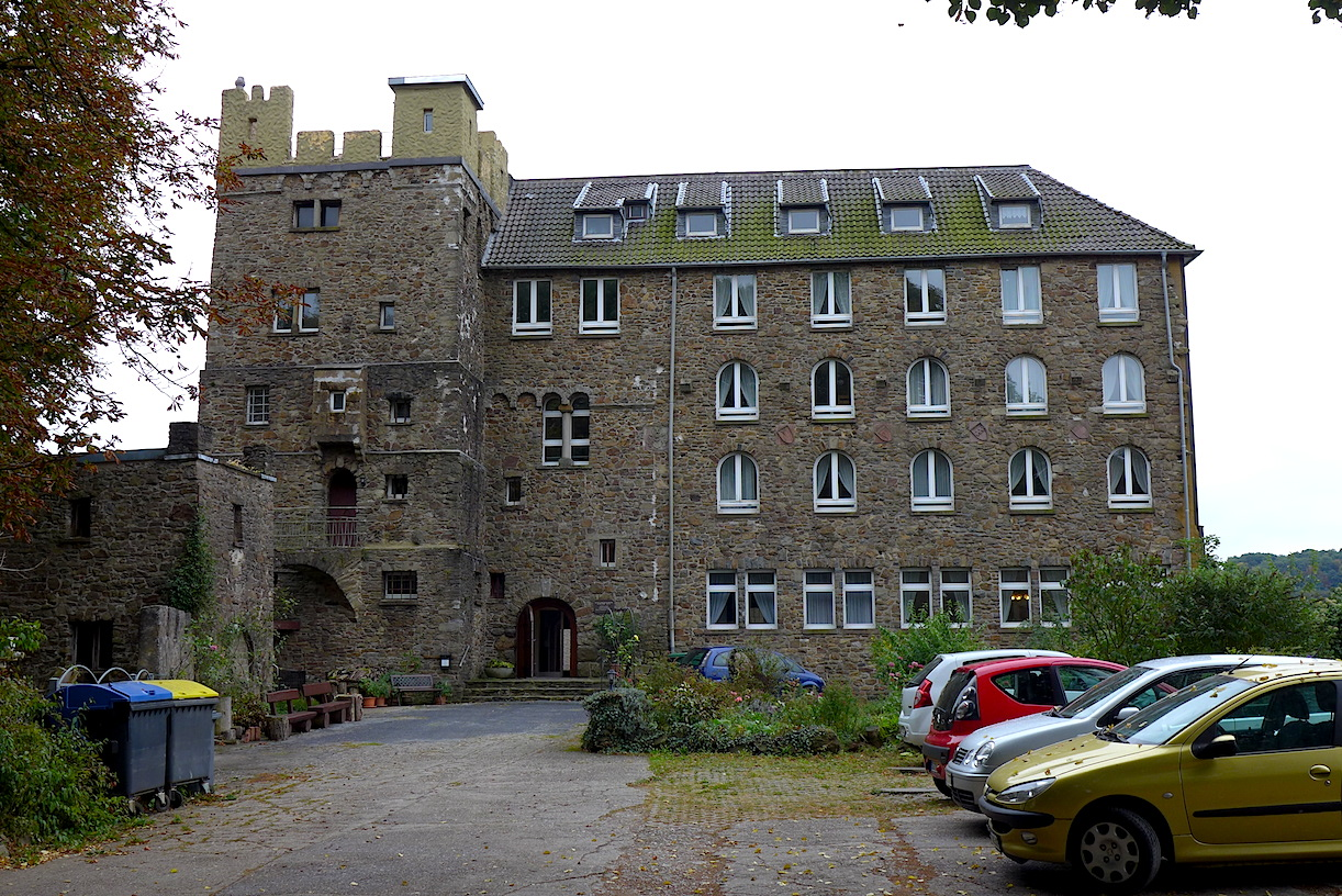 "Blade track" - the tourist marked route around the German city of Solingen (Northern Rhine-Westphalia). 5th stage: along the river Wupper. 9,2 km.